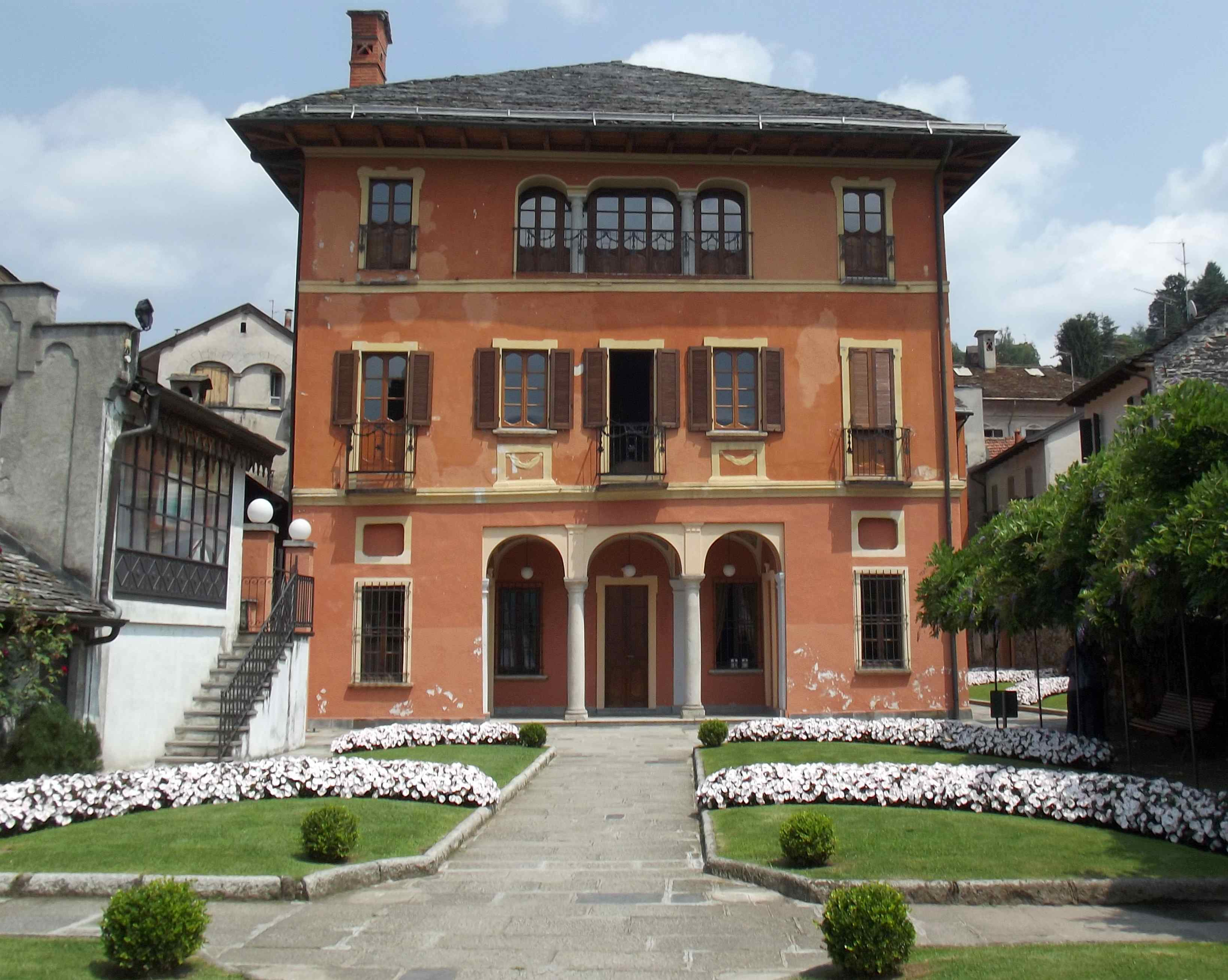 Orta San Giulio (NO, Italy): town hall